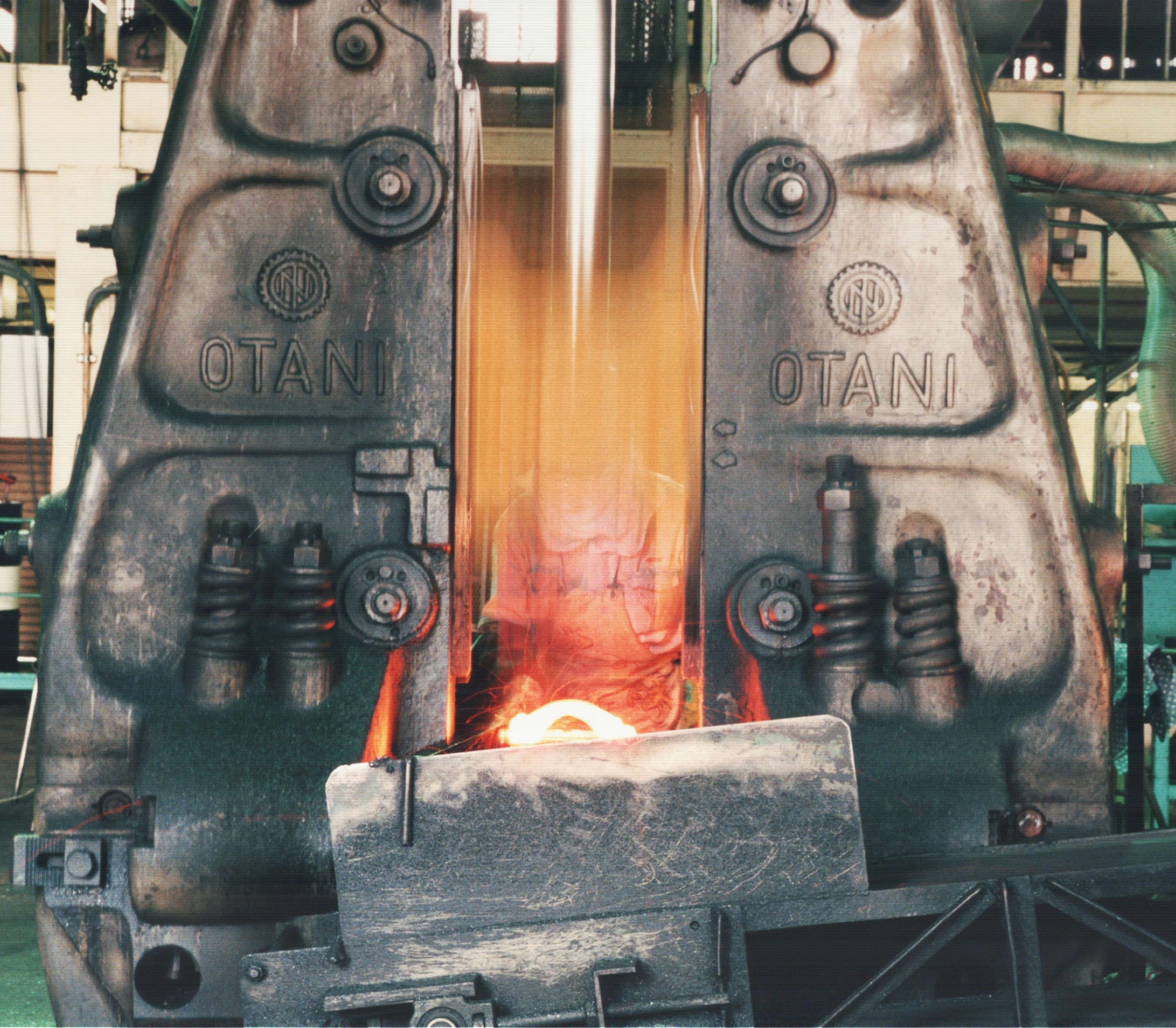 Drop-hammer